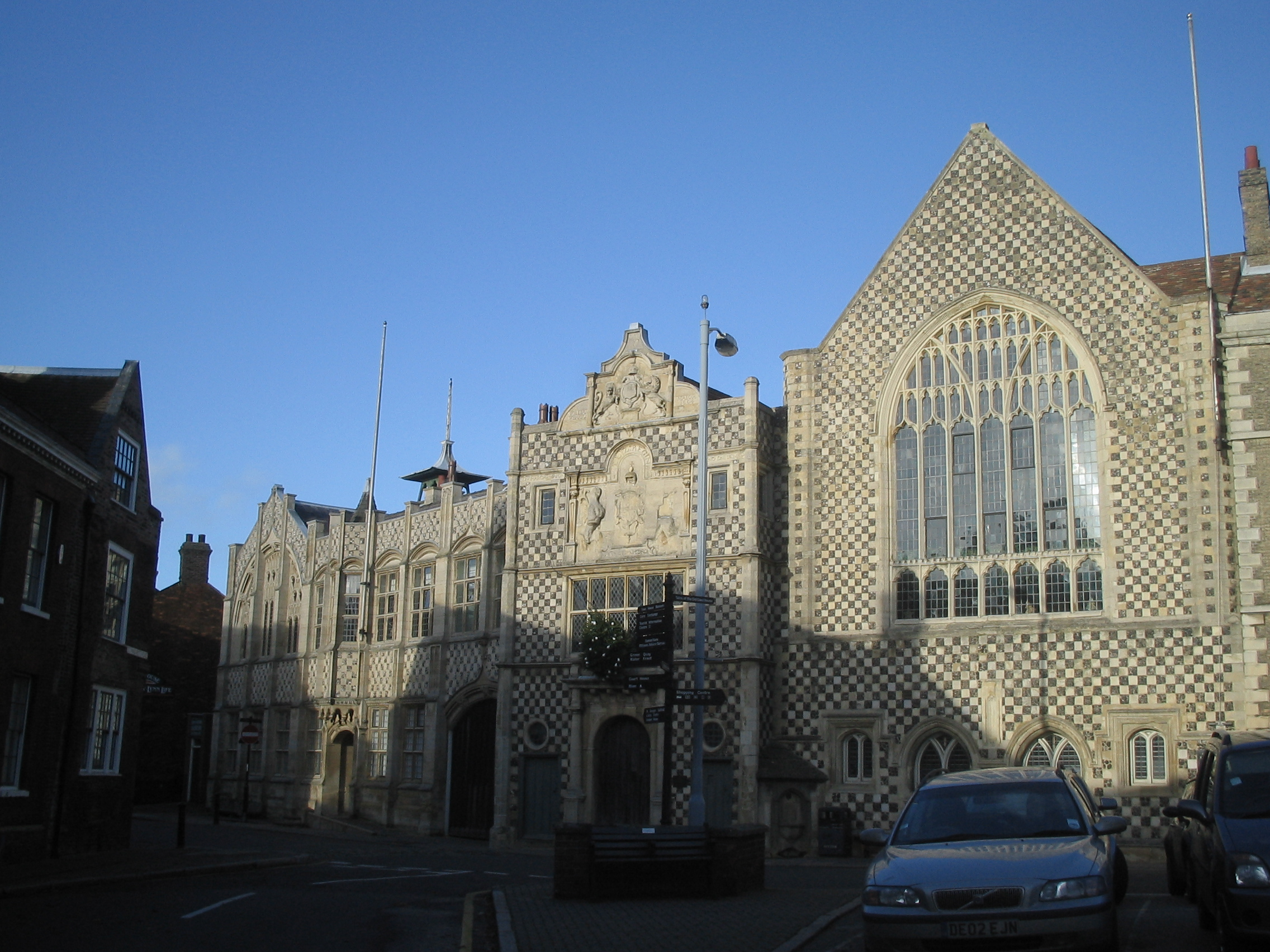 King's Lynn's Town Hall and Trinity Guildhall. The photograph was taken by myself (Ben Dickson) on December 3rd 2006 with a Canon iXus i Digital Camera.